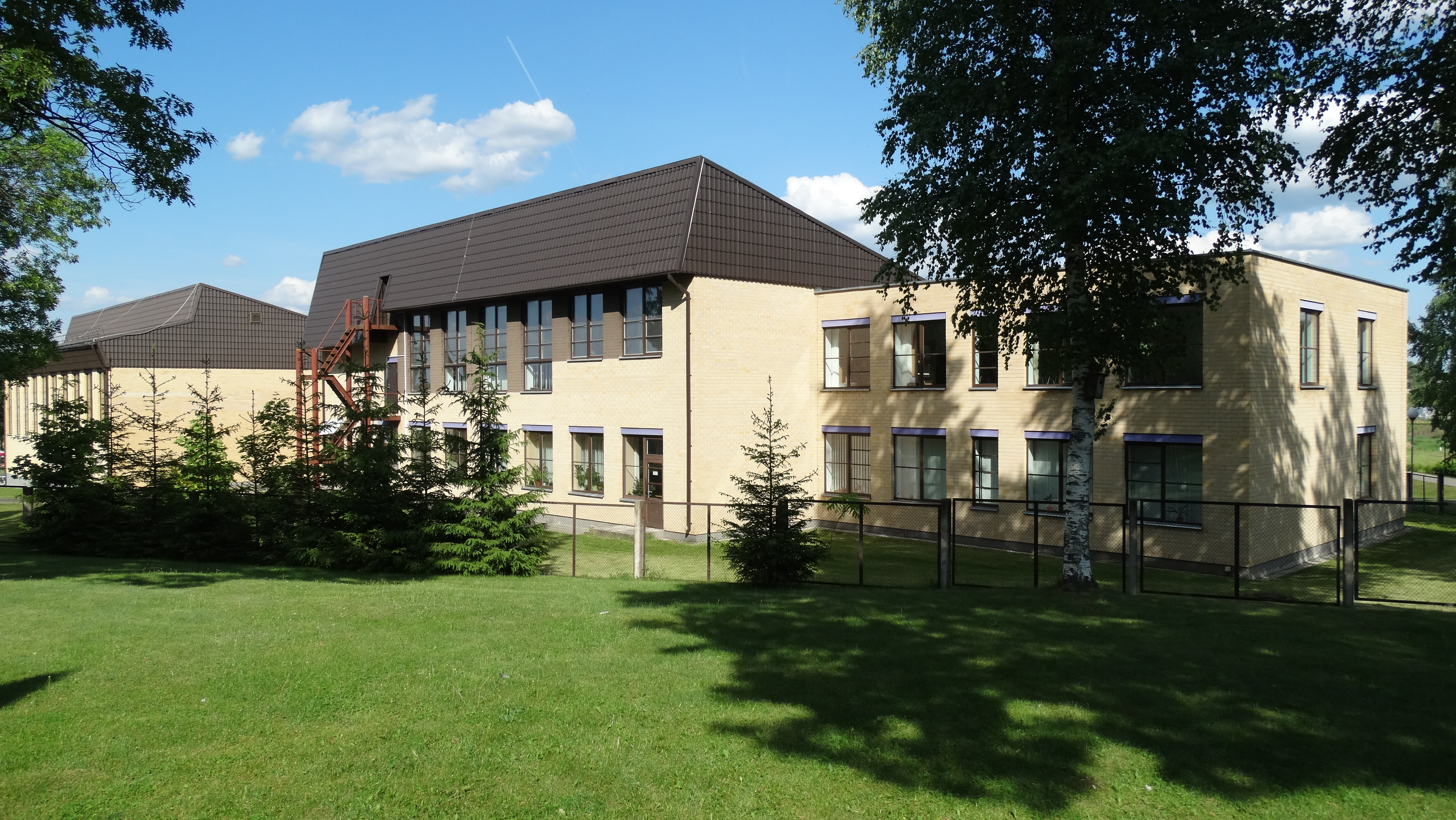 Gymnasium „Aušra“, Kalveliai, Vilnius District, Lithuania